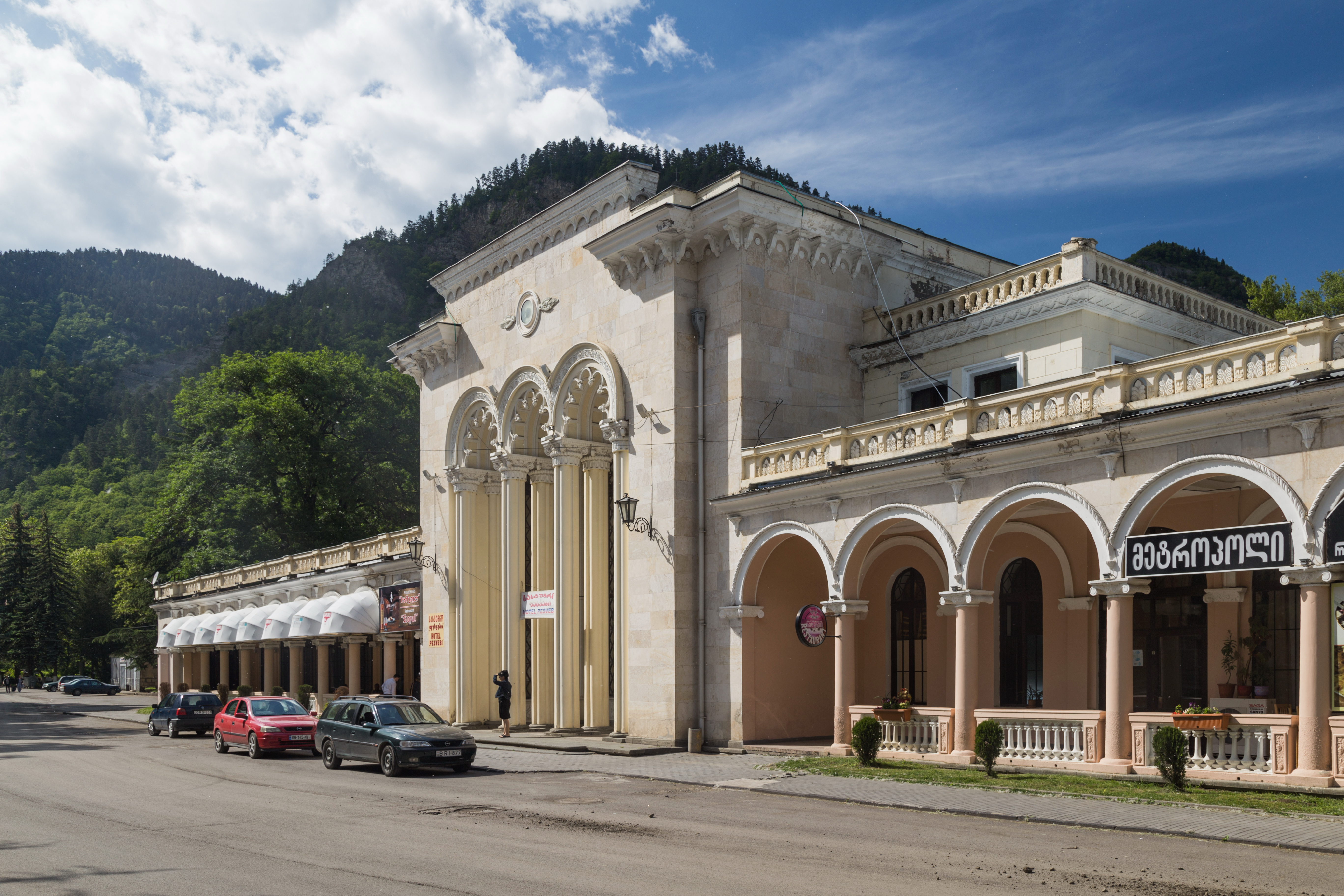 Railway station. Borjomi, Samtskhe-Javakheti, Georgia.